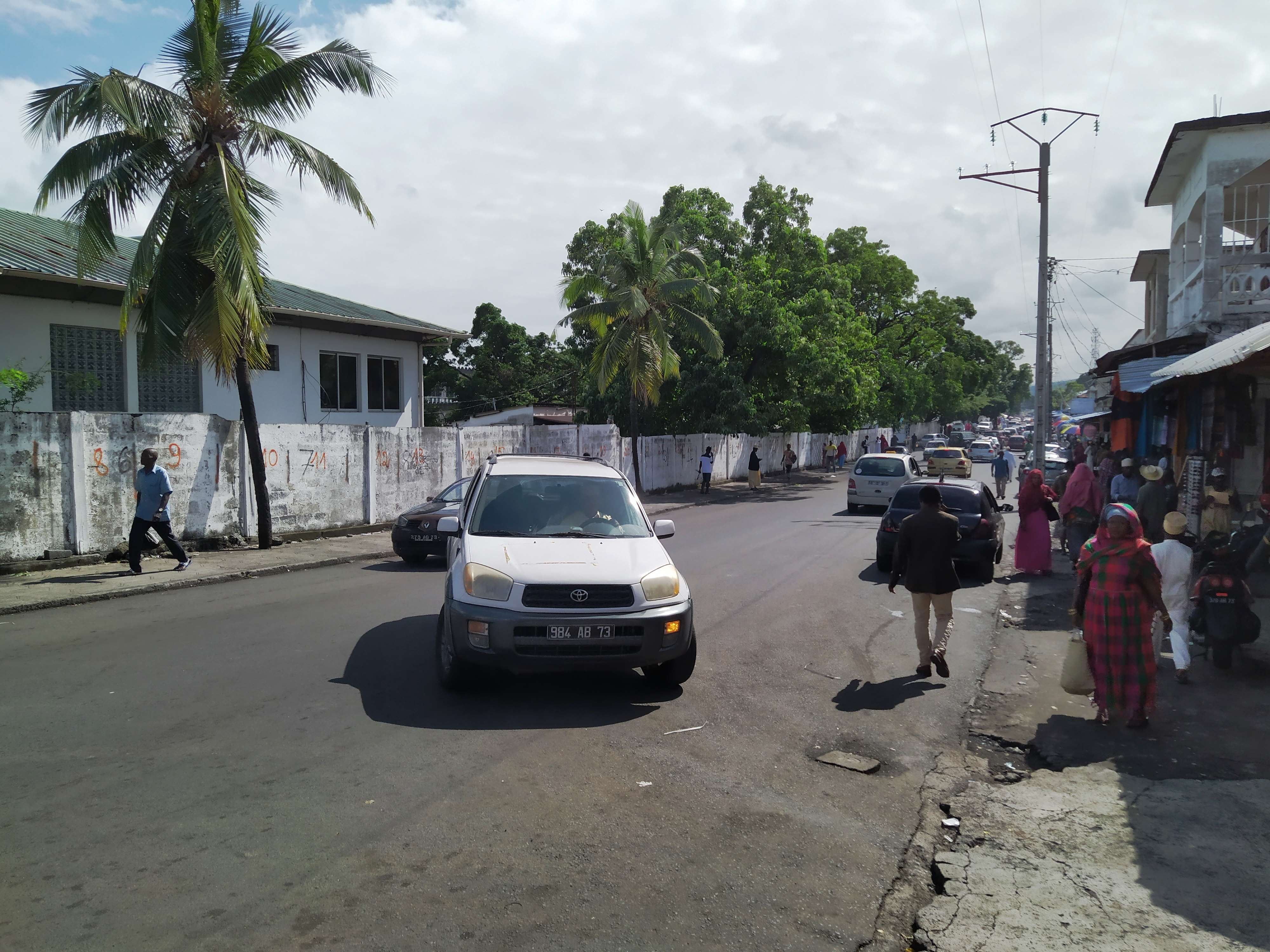 A street in Moroni, Comoros